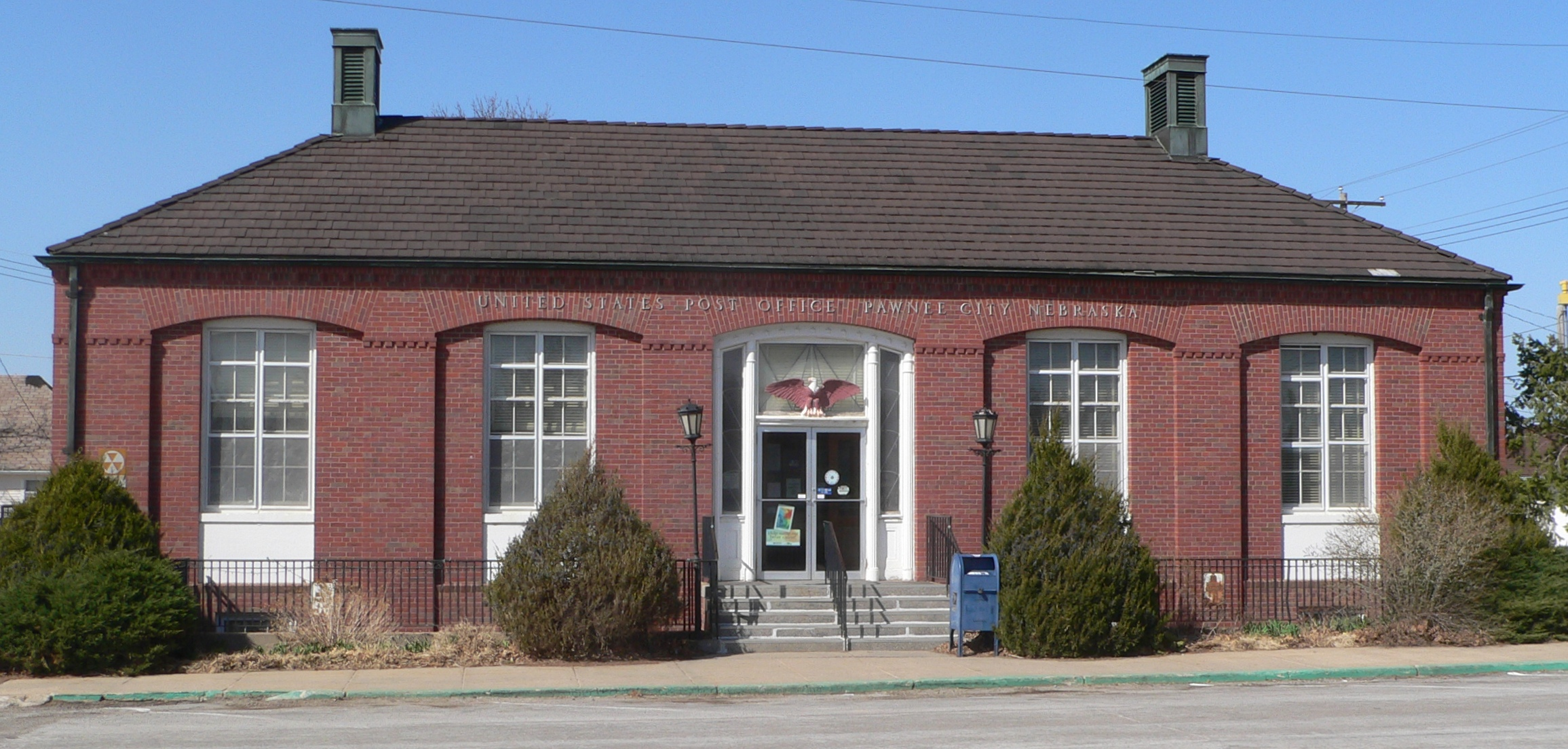 Post office in Pawnee City, Nebraska; seen from the east.